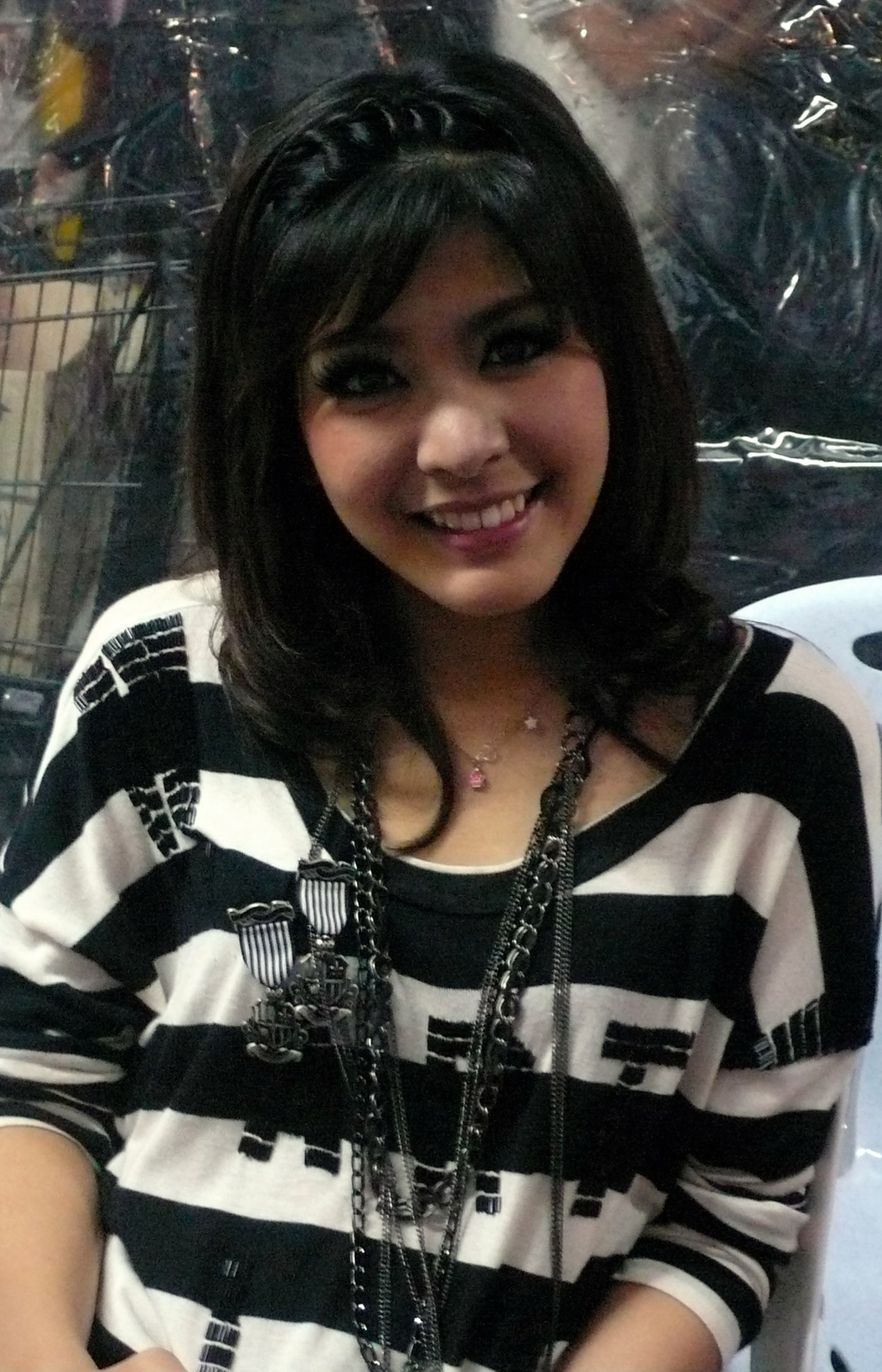 Neungtida Sophon at Honda Scoopy-i promotion @ Robinson Trang